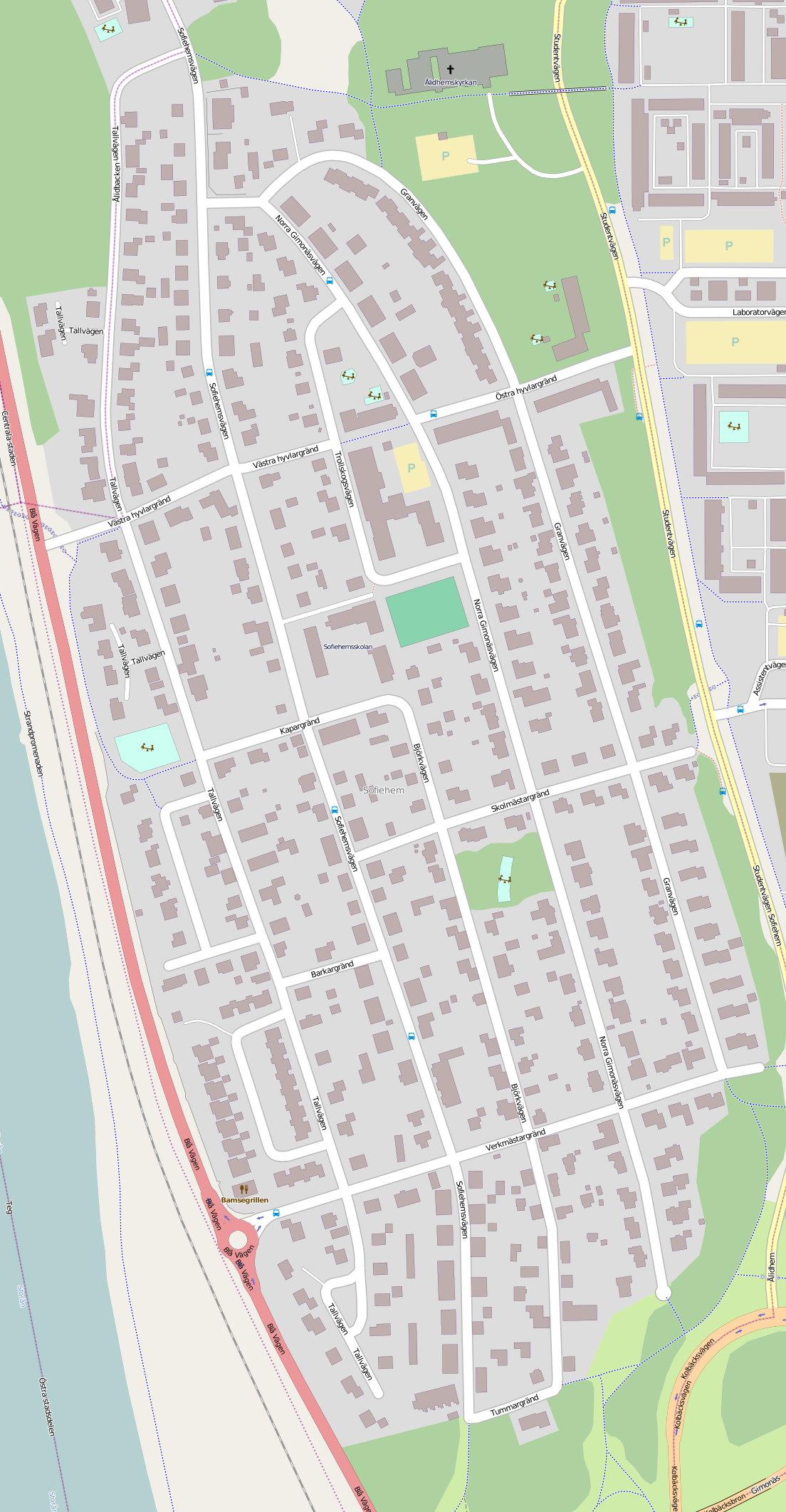 This map of Sofiehem was created from OpenStreetMap project data, collected by the community. This map may be incomplete, and may contain errors. Don't rely solely on it for navigation.